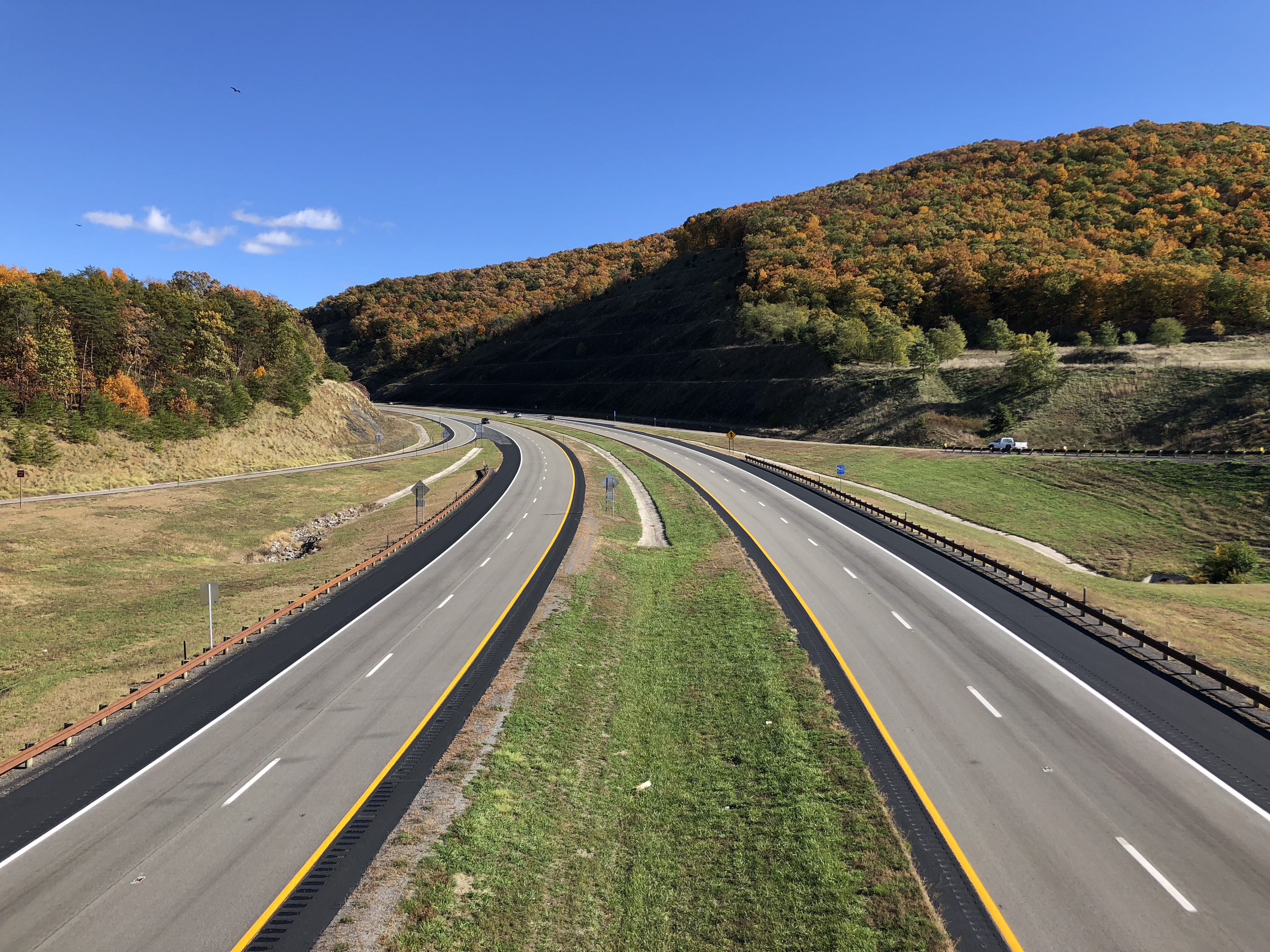 View east along U.S. Route 48 and West Virginia State Route 55 (Corridor H) from the overpass for McCauly Road in Fort Run, Hardy County, West Virginia